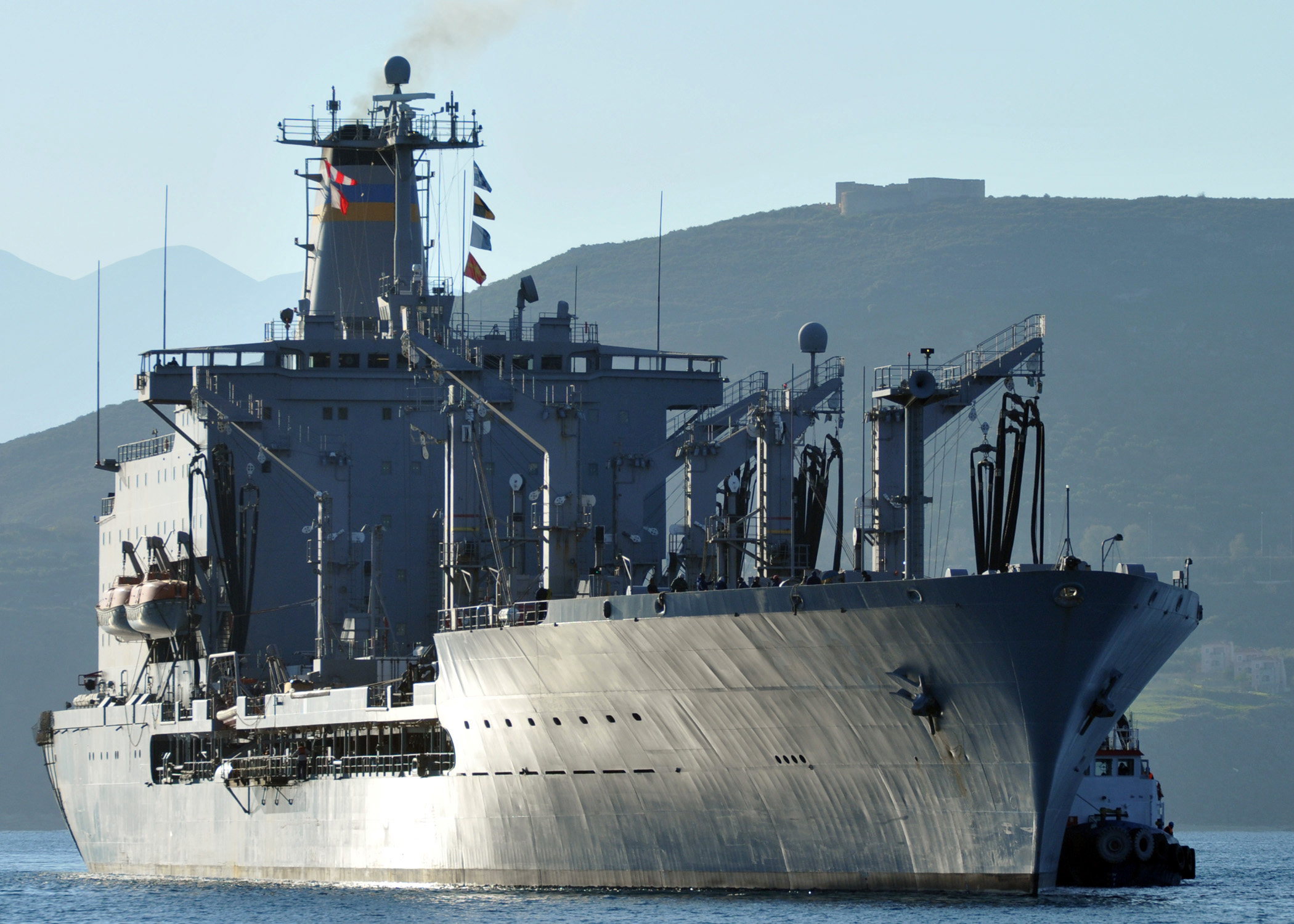 090108-N-0780F-001 SOUDA BAY, Crete, Greece (Jan 8, 2009) The Military Sealift Command fleet replenishment oiler USNS Laramie, T-AO 203, arrives in Souda Bay for a routine port visit. Laramie is on a scheduled deployment in the U.S. 5th Fleet area of responsibility conducting Persian Gulf and anti-piracy operations.